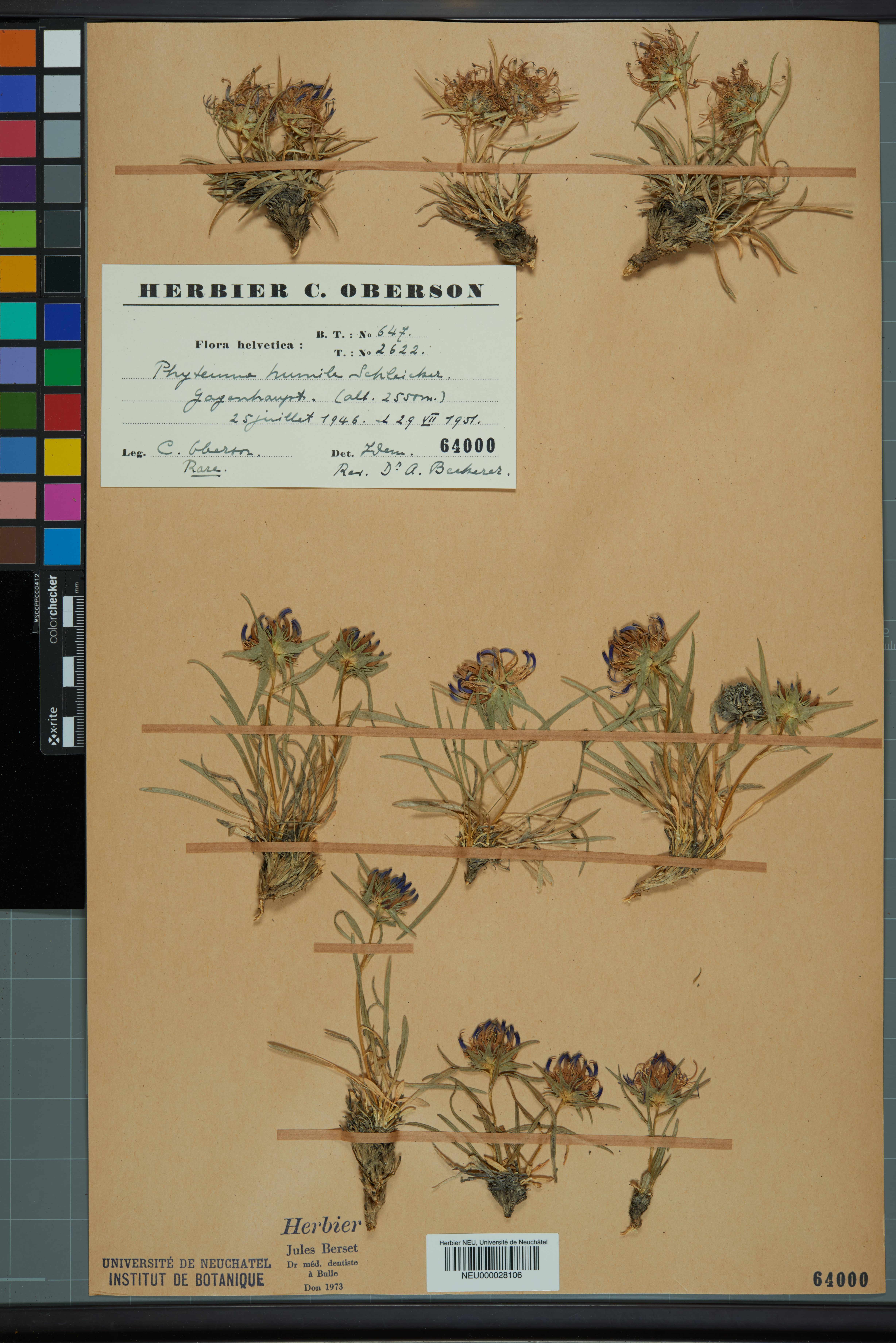 Dried pressed specimen of Phyteuma humile